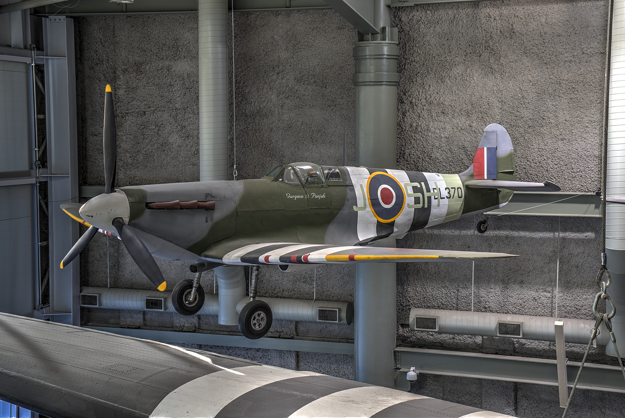 Supermarine Spitfire F Mk.VB BL370